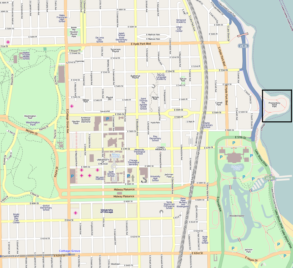 Promontory Point (Chicago) This map may be incomplete, and may contain errors. Don't rely solely on it for navigation.